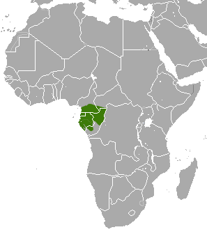 Gabon Bushbaby (Galago gabonensis) range